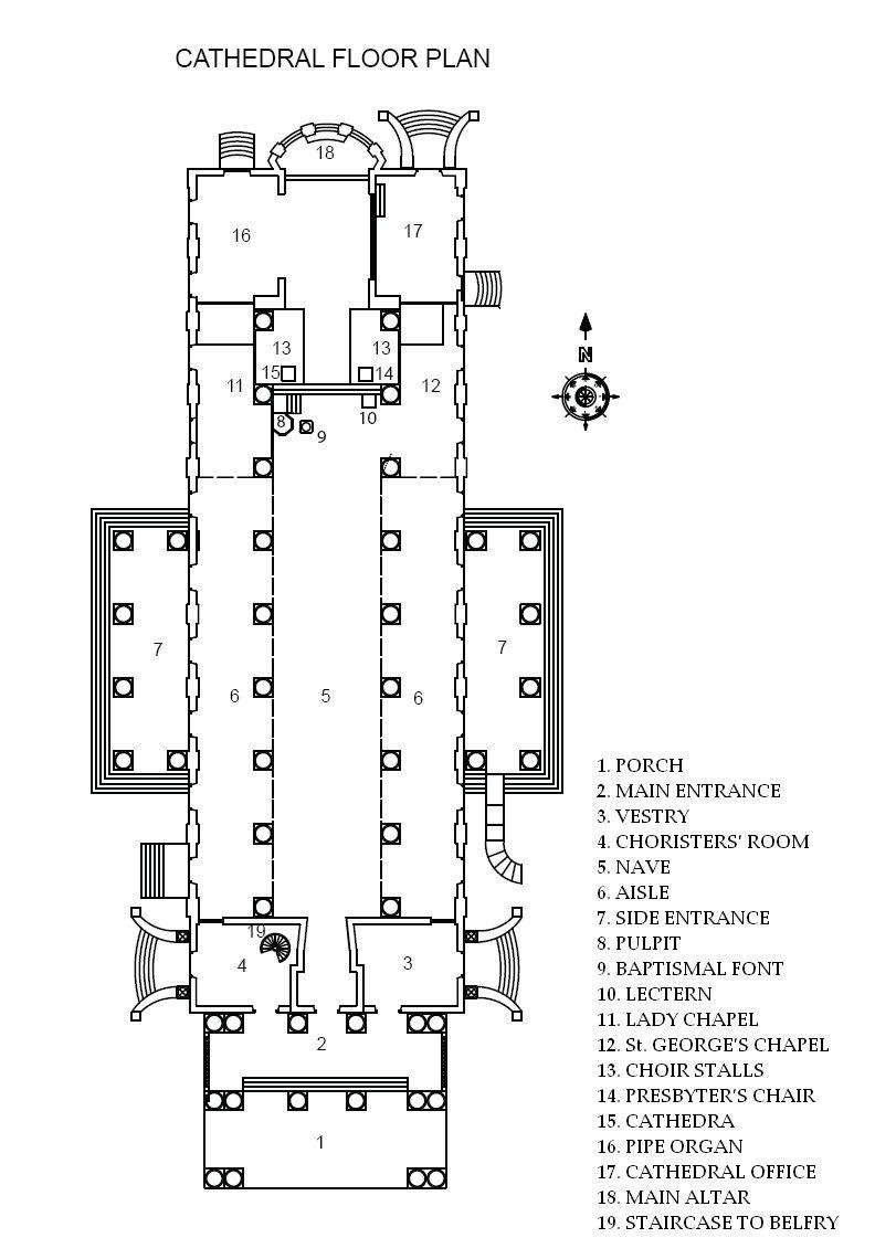 St. George's Cathedral, Chennai